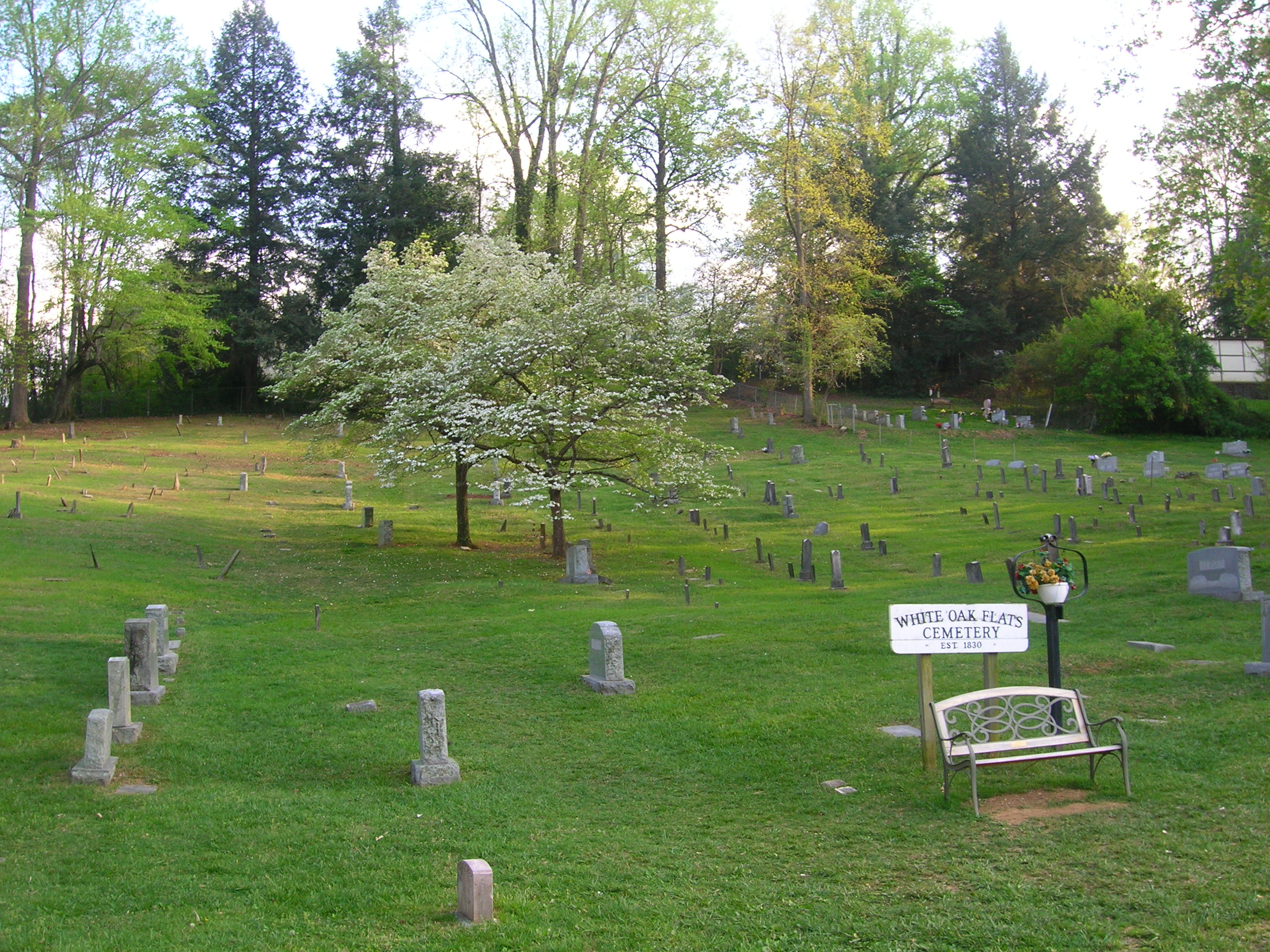 The White Oak Flats Cemetery in Gatlinburg, Tennessee is the final resting place of many of the community's native denizens. Photo taken by myself, Scott Basford, in April of 2006.